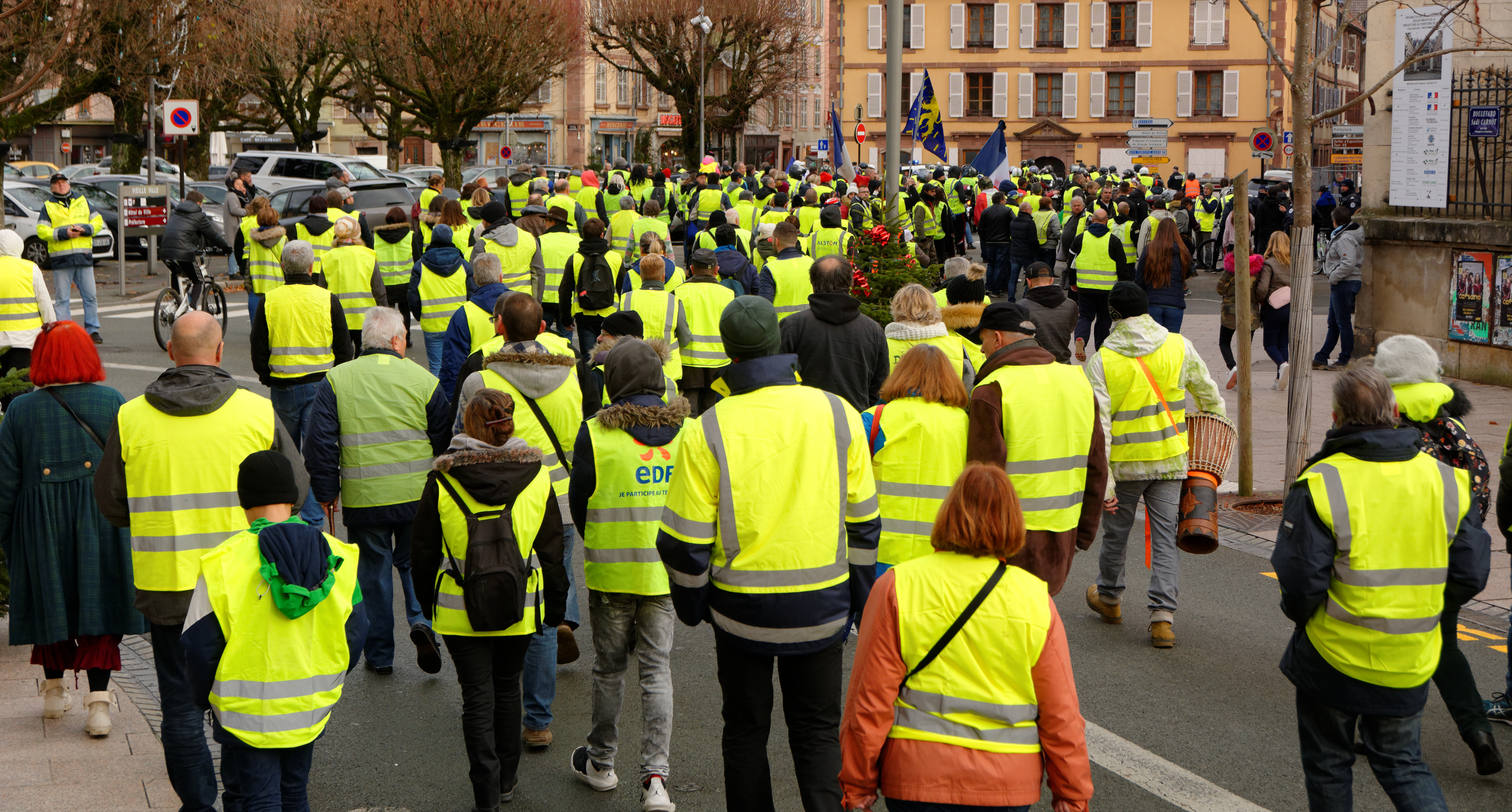 Personality rights warningAlthough this work is freely licensed or in the public domain, the person(s) shown may have rights that legally restrict certain re-uses unless those depicted consent to such uses. In these cases, a model release or other evidence of consent could protect you from infringement claims.